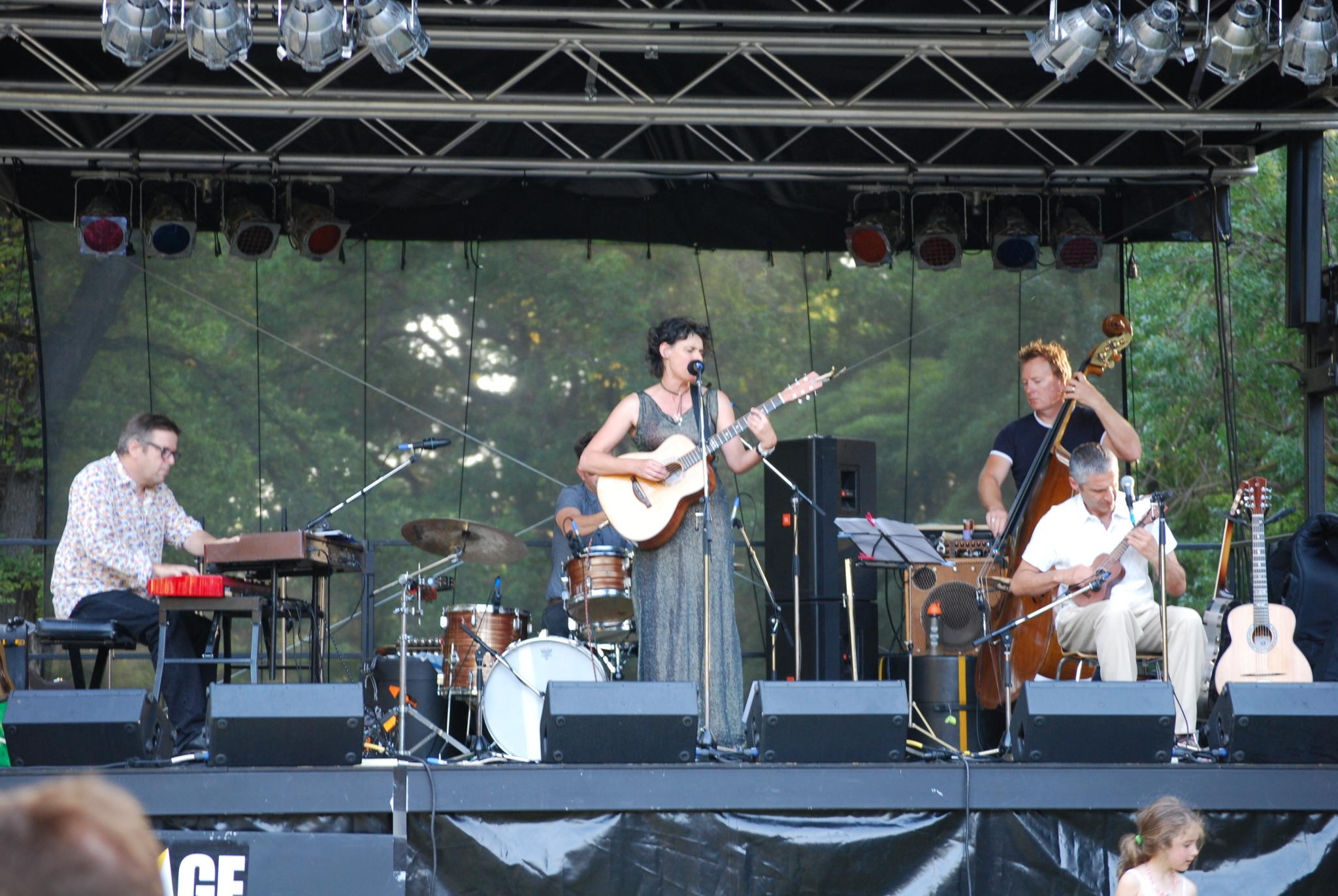 Deborah Conway and her band playing a Sunset Concert at Fitzroy Gardens, Melbourne.